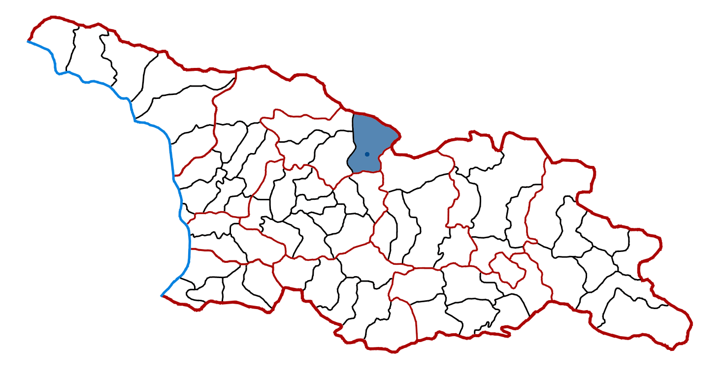 Location of Oni district in Georgia